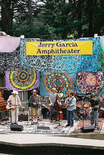 Playing with the Harmony Grits at Jerry Day